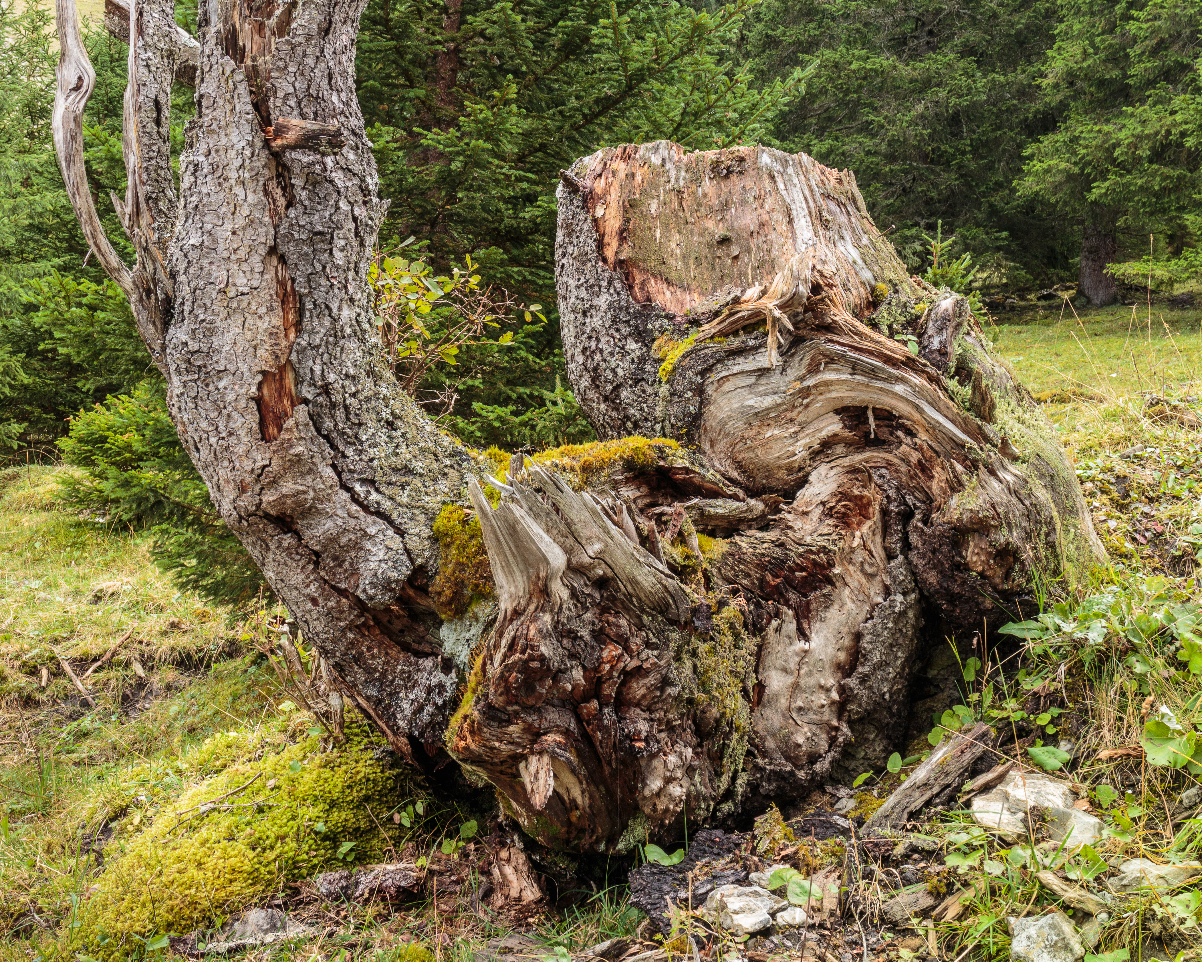 Mountain trip from Tschiertschen (1350 meters) via Ruchtobel towards Ochsenalp. Tree stump.